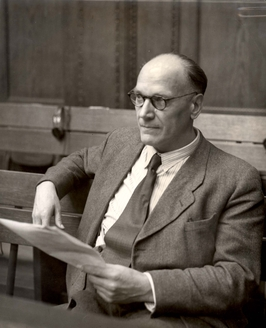 Nuremberg, Germany, The defendant Odilo Burkart during the case against the Flick Concern, 23/04/1947